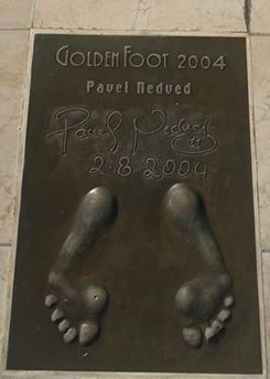 Imprints of Pavel Nedvěd's feet on display in Monaco